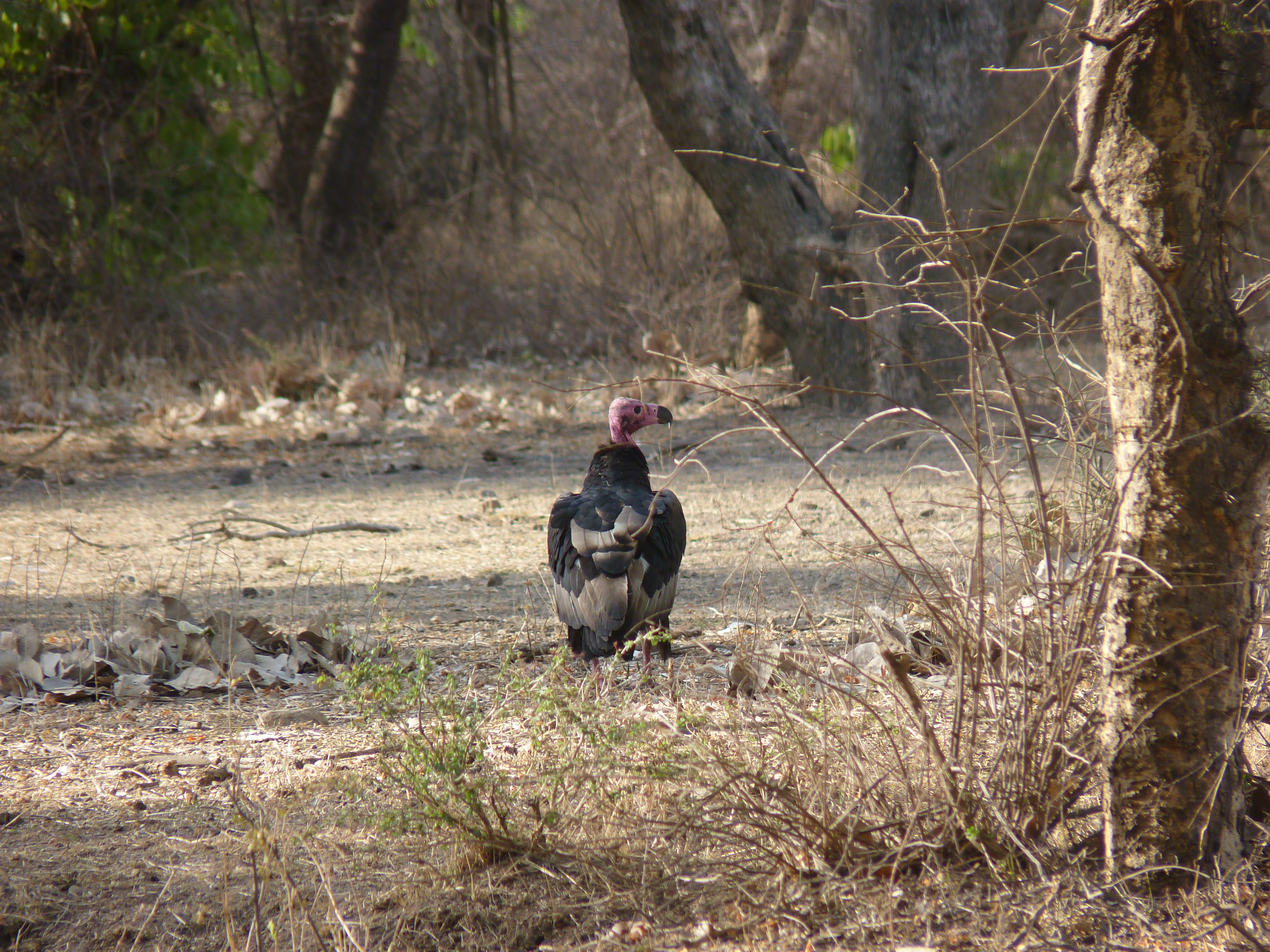 Red headed Vulture female